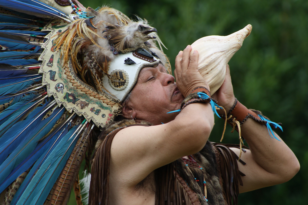 Jorge Nopaltzin Guaderrama comes from the Aztec tradition. The Aztec have much wisdom about all the facets of live, translated into different deities. Nopaltzin teaches people to live directly from the heart, unconditionally.